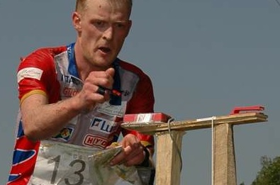 At World Orienteering Championships 2007 in Kiev, Ukraine, Norwegian orienteer Anders Nordberg uses an electronic control card (a "dibber") to "punch in" at a control point.